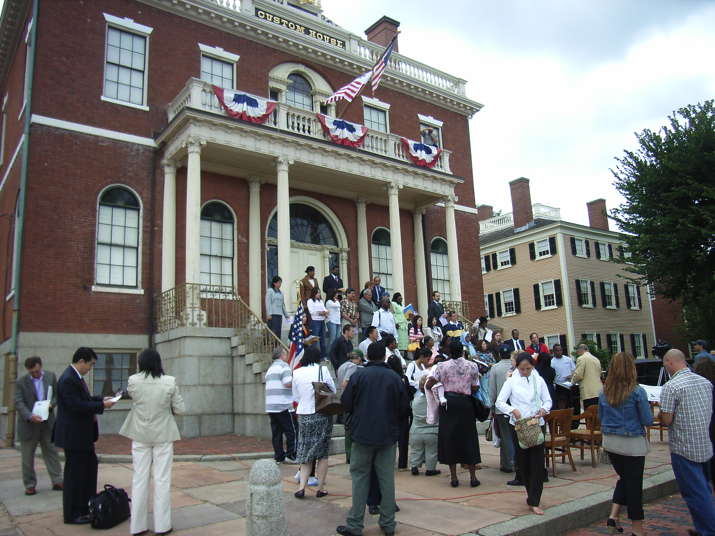 Naturalization ceremony on Citizenship Day 2007 (Monday 2007-09-17) on the stairs of the Custom House, Salem Maritime National Historic Site, Salem MA (USSLM)